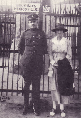 The future Duchess of Windsor, Wallis Warfield, and her husband, Lieutenant Commander Earl W. Spencer, at the Mexico-United States boundary marker just south of San Diego, July, 1918.